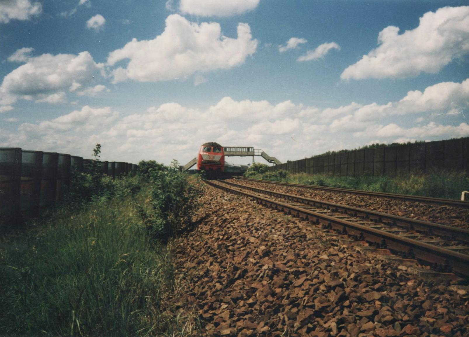 Railroad traffic between Helmstedt and Marienborn.